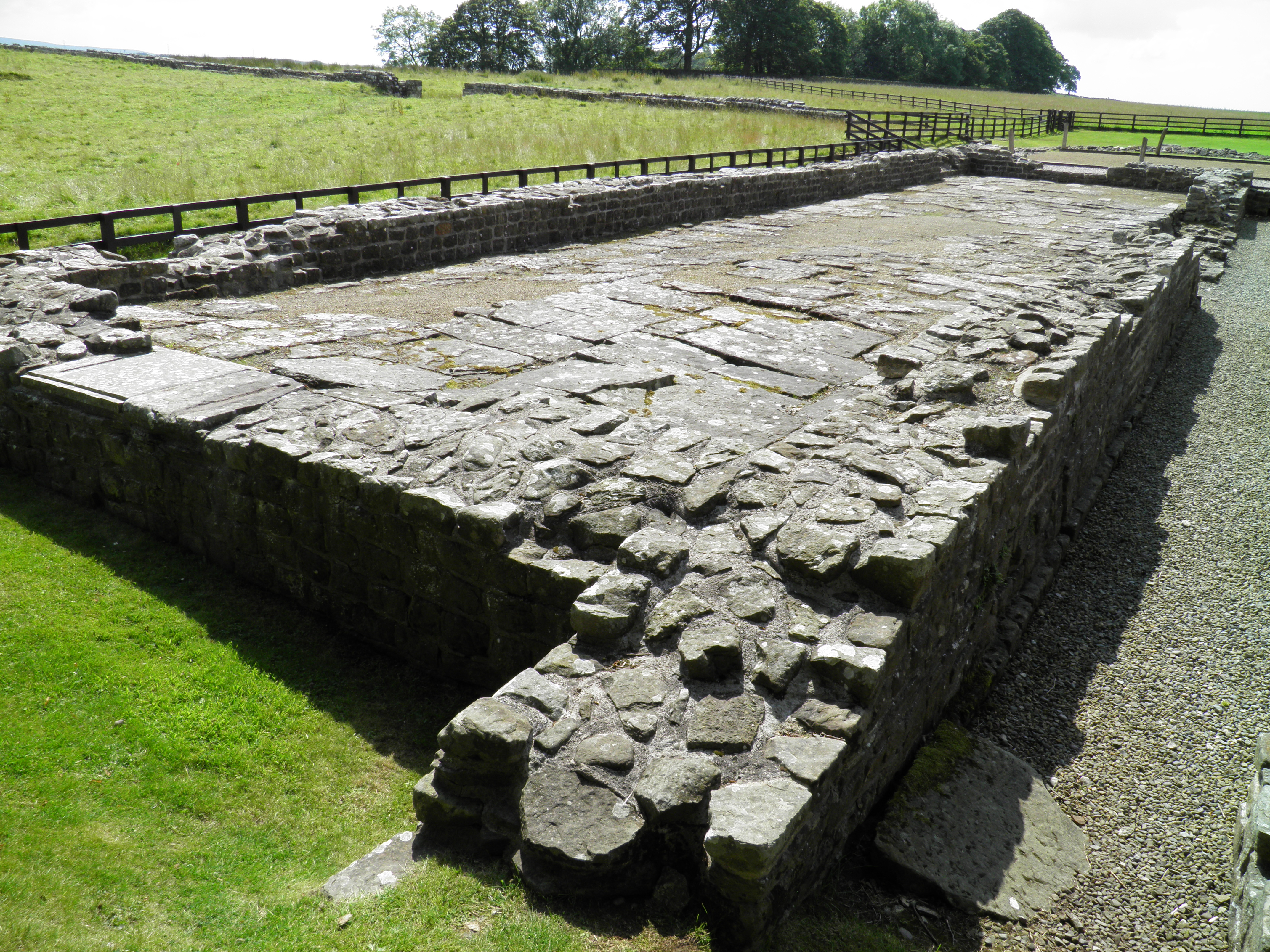 Birdoswald Roman Fort, Hadrian's Wall